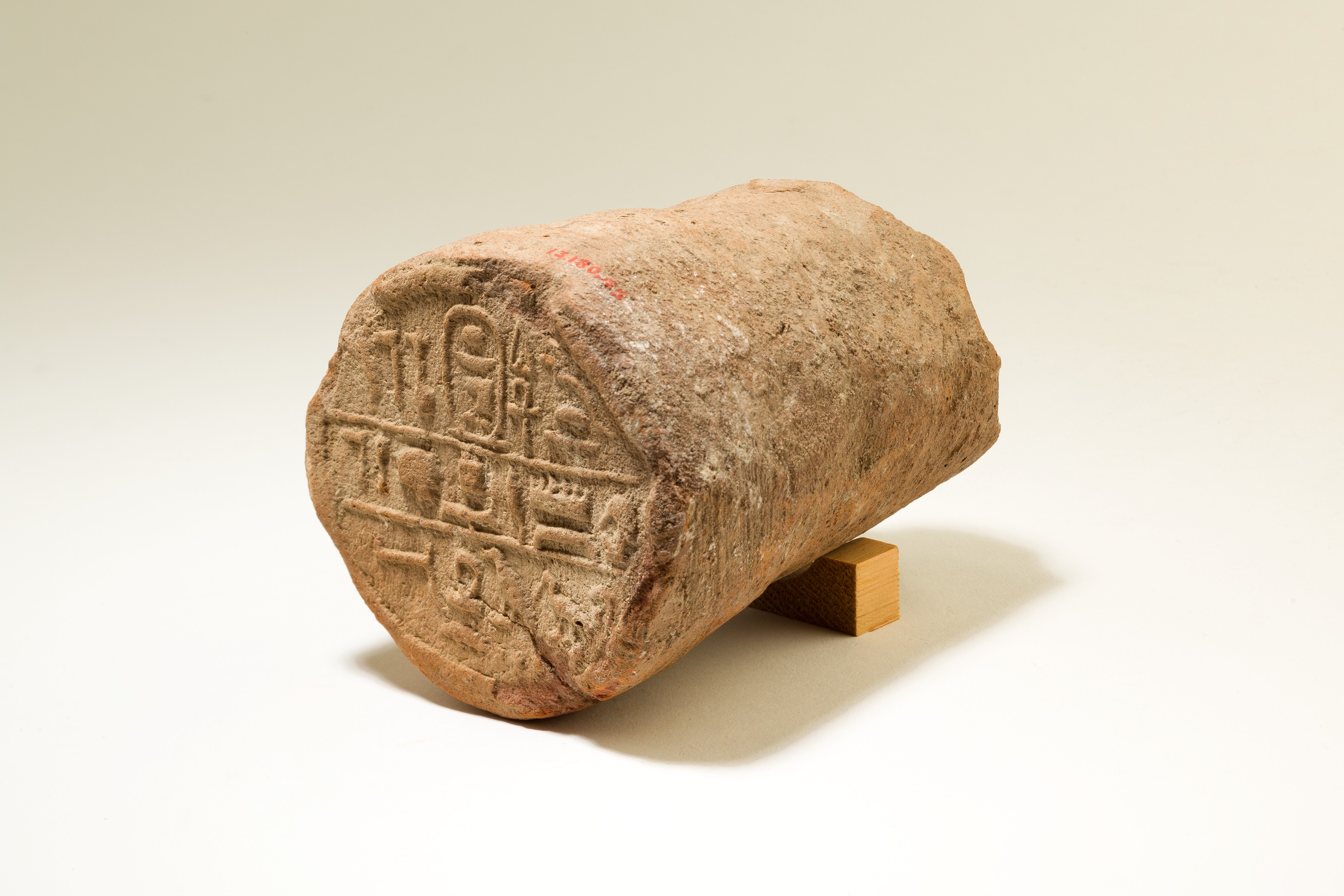 Cone, circular impression, Djehuty